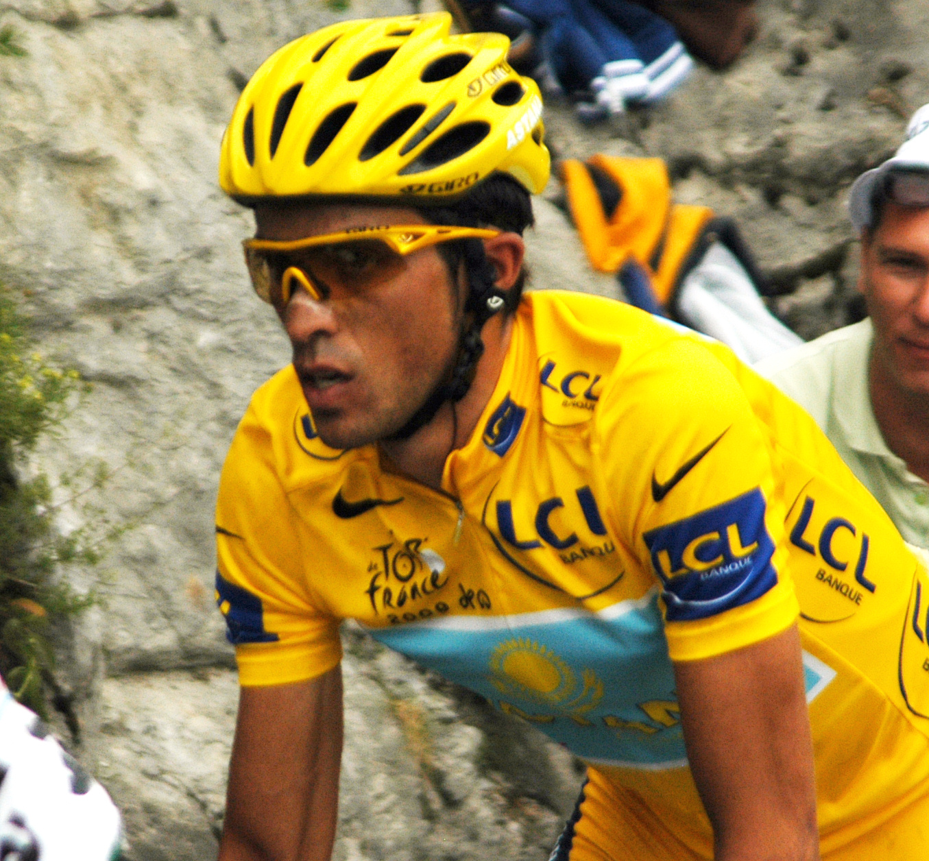 Alberto Contador (ESP) at stage 17 of the 2009 Tour de France on the Col de la Colombière.